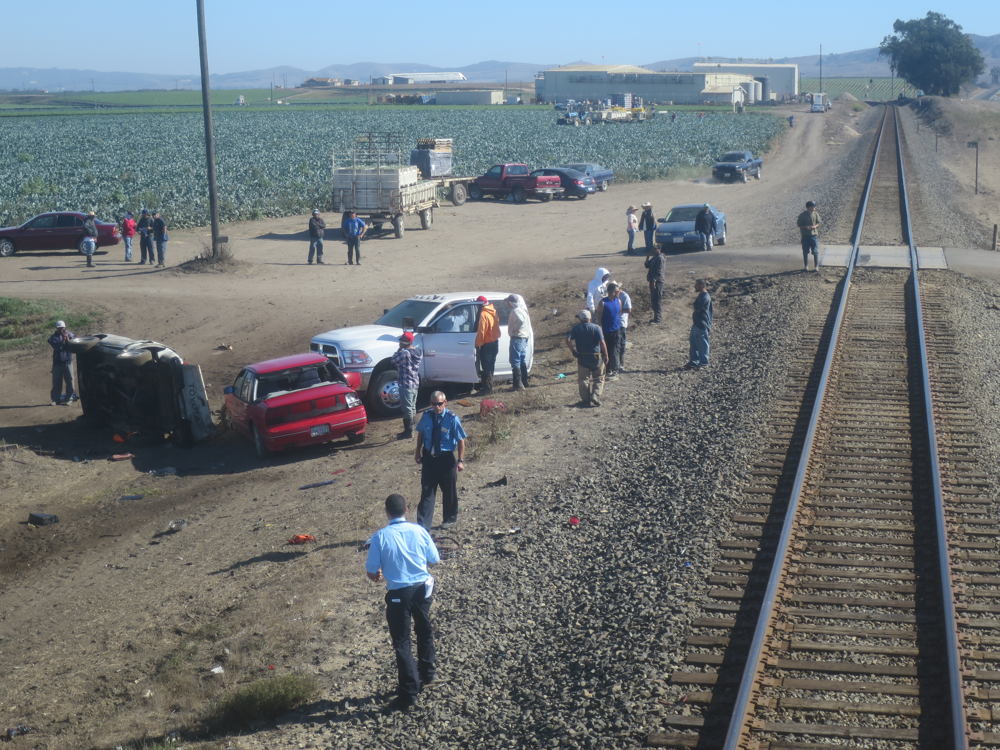 Car (white) hit by "Coast Starlight" AMTRAK-Train on Level crossing near mile 275 of Los Angeles - Oakland line on 6th of October 2014. It was cut in two and hit two other cars (red and white) when pushed away by the Train.